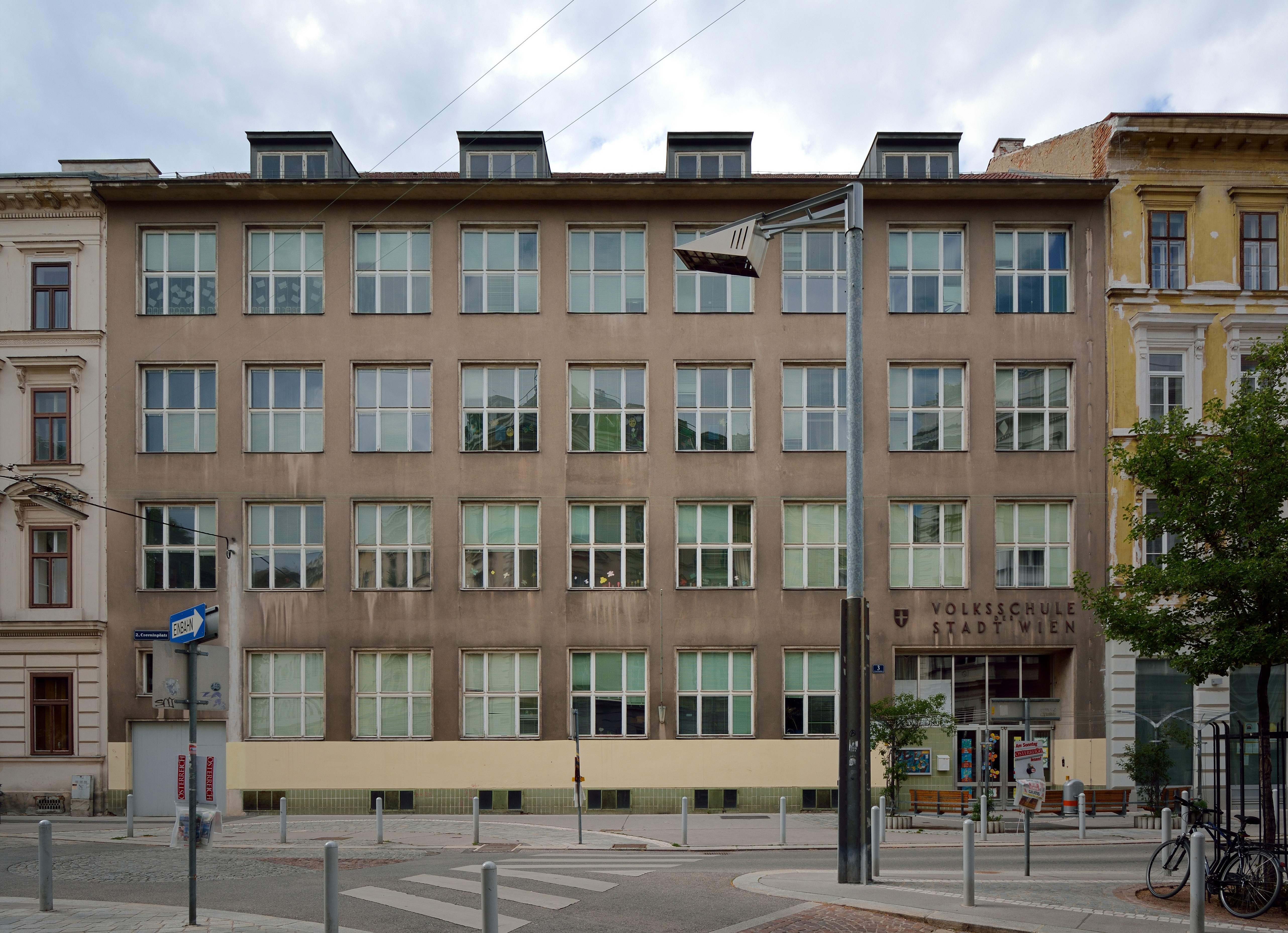 Primary school Czerninplatz 3, 2nd district of Vienna